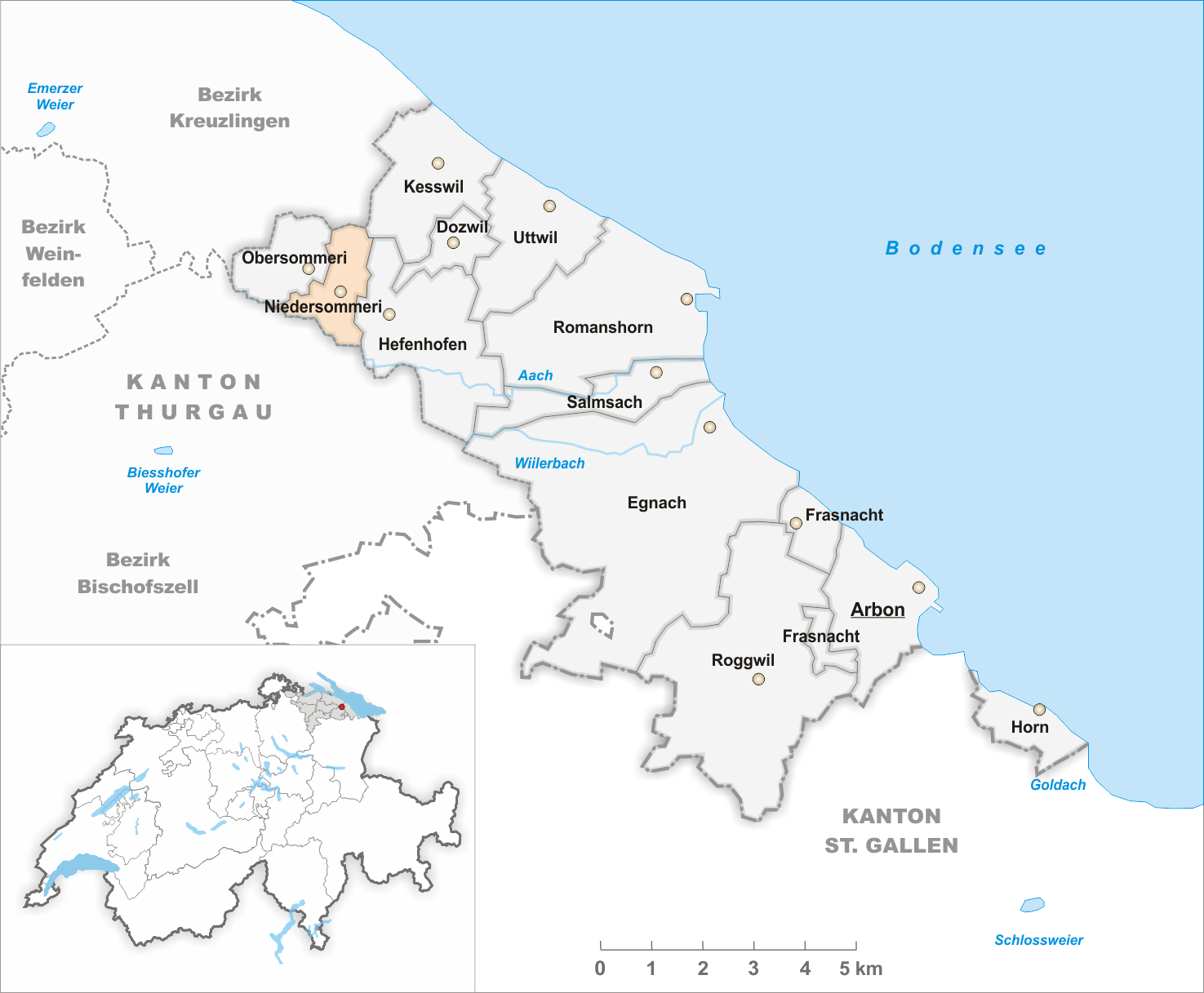 Municipality Hemmerswil